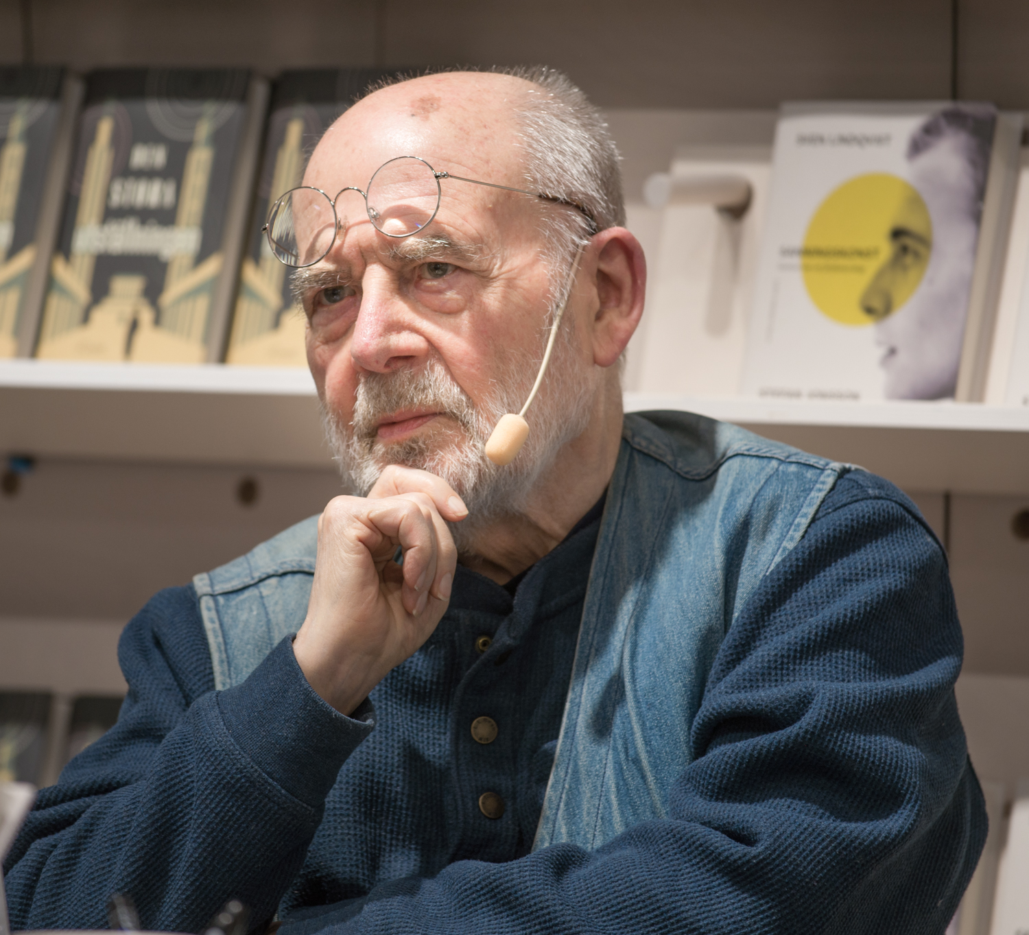 Stefan Jonsson samtalar med Sven Lindqvist utifrån den aktuella boken "Sanningskonst" på Akademibokhandeln i Stockholm den 10 februari 2018.